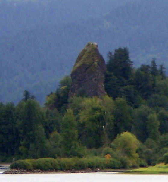 Rooster Rock in Rooster Rock State Park as seen from I-84 a few miles west of the park.